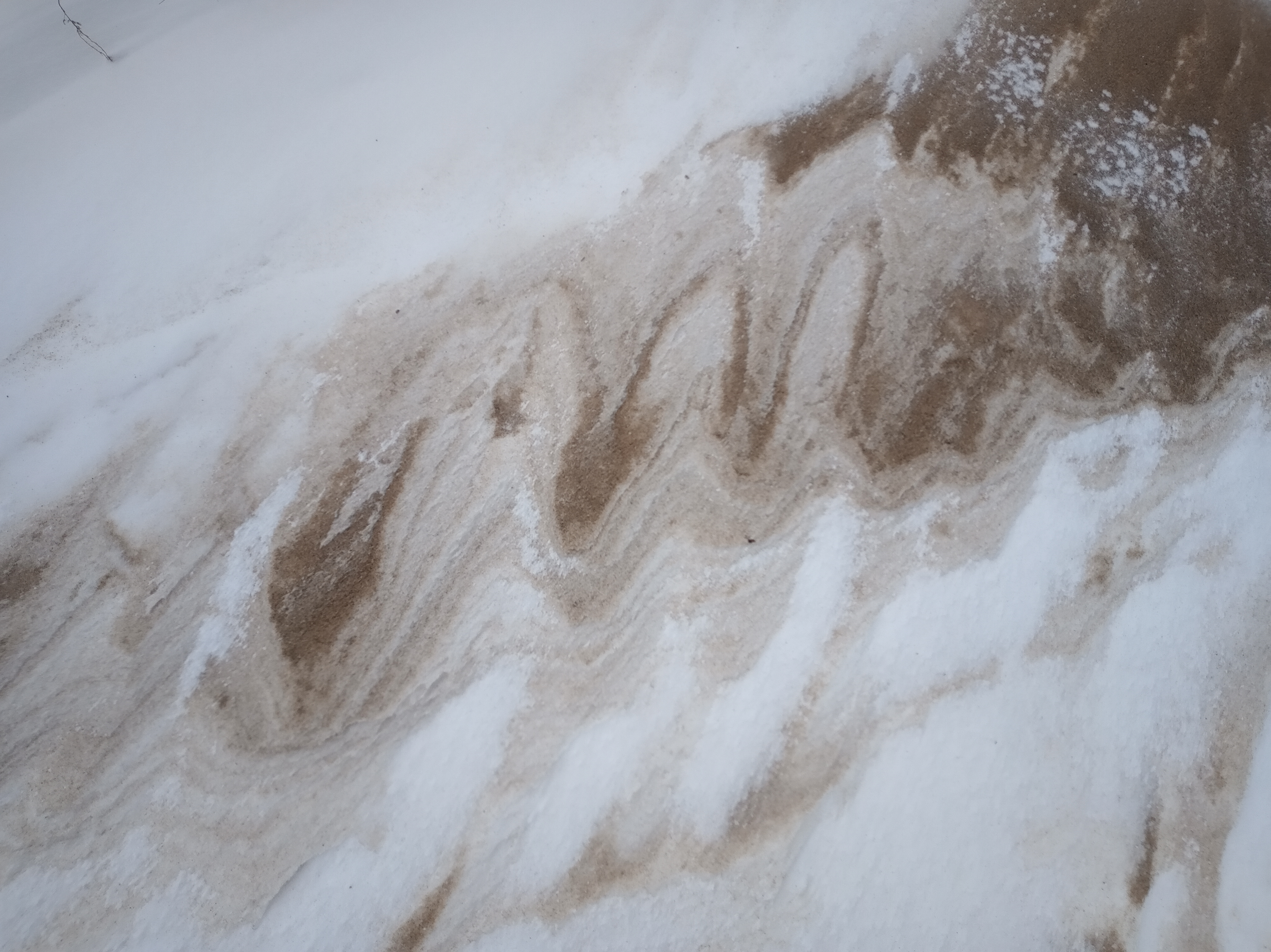 Layers of windblown sand and snow on a foredune at Lake Street Beach in Gary Indiana.